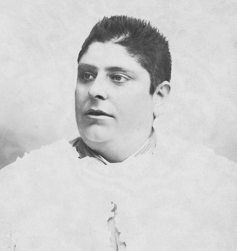 Alessandro Moreschi (1858-1922), last surviving castato of the Sistine Chapel's Choir.